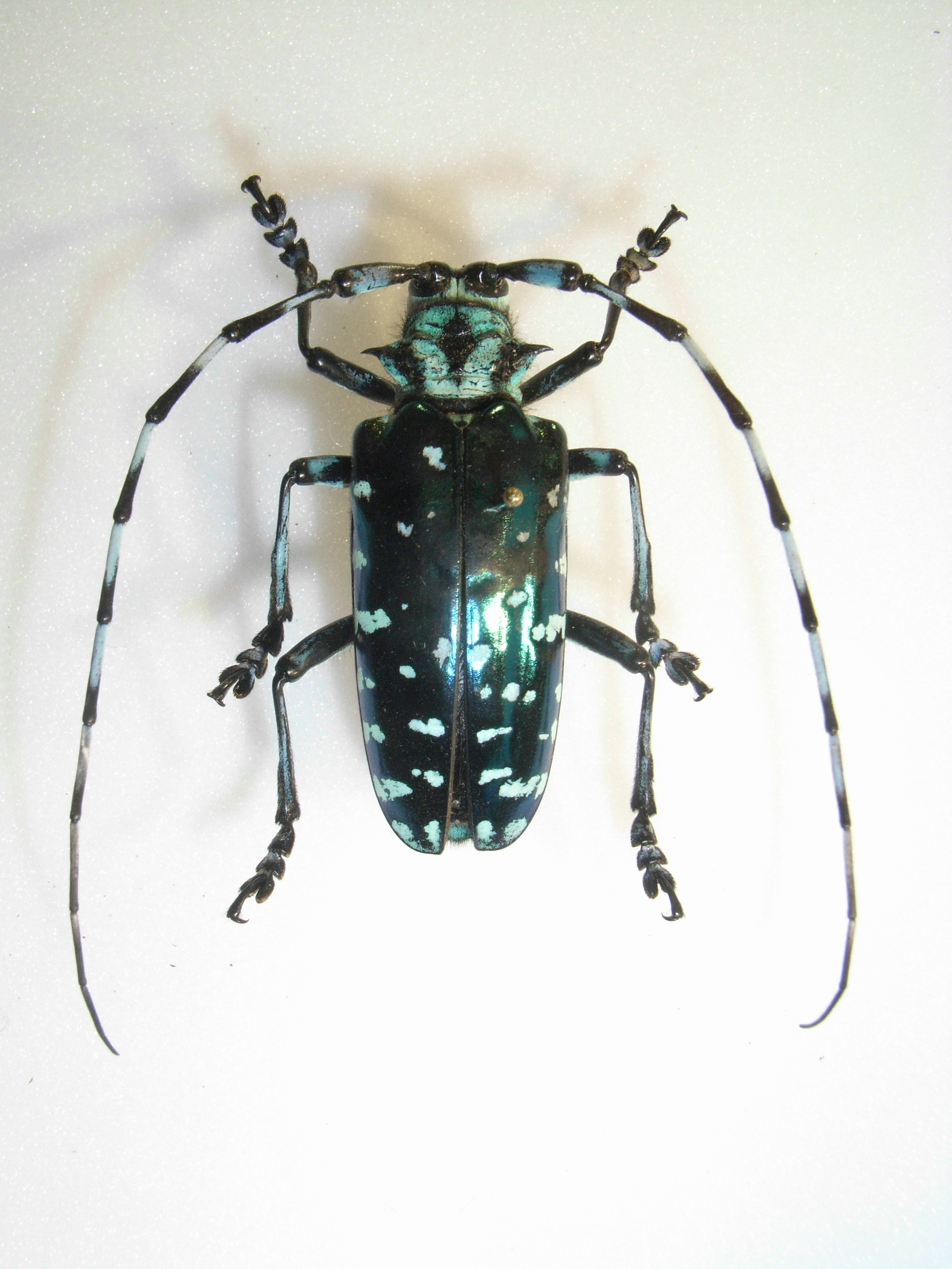 Calloplophora sollii Hope Ex coll. Felix Stumpe